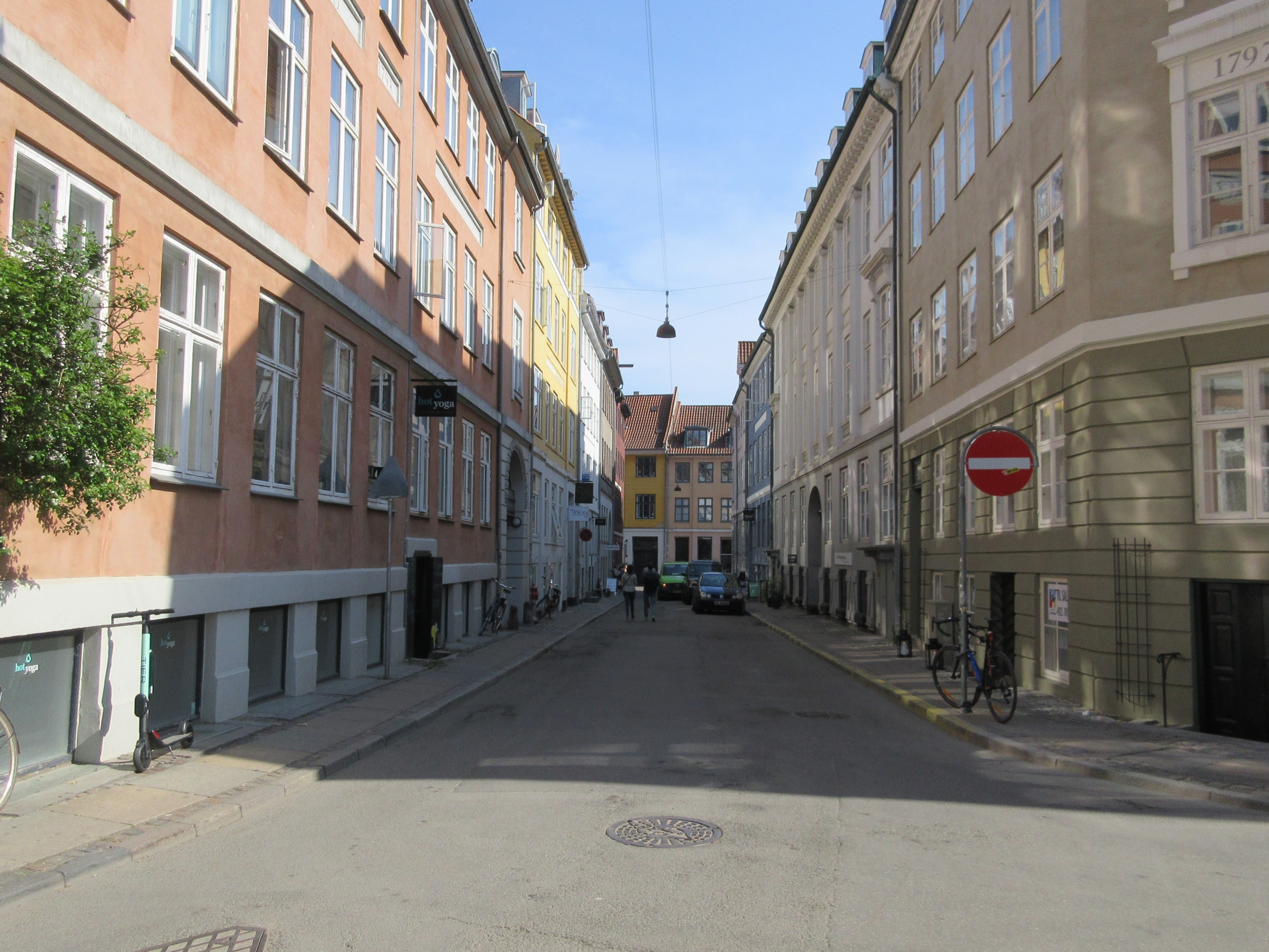 Badstuestræde in Copenhagen, Debnmark